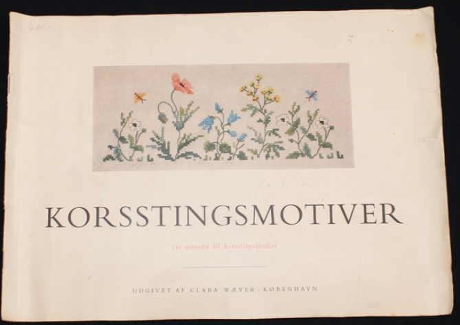 Cropped version of Front cover of a set of cross-stitch patters by the Danish embroiderer Clara Wæver